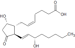 Chemical structure of prostaglandin D2